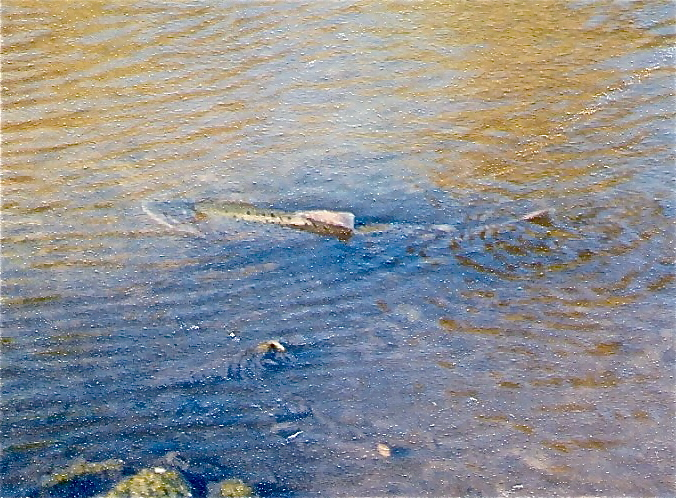 Chinook salmon (Oncorhynchus tshawytscha), Santa Clara County, California. photo taken 11-09-1996 near U. S. Highway 17 on Los Gatos Creek.